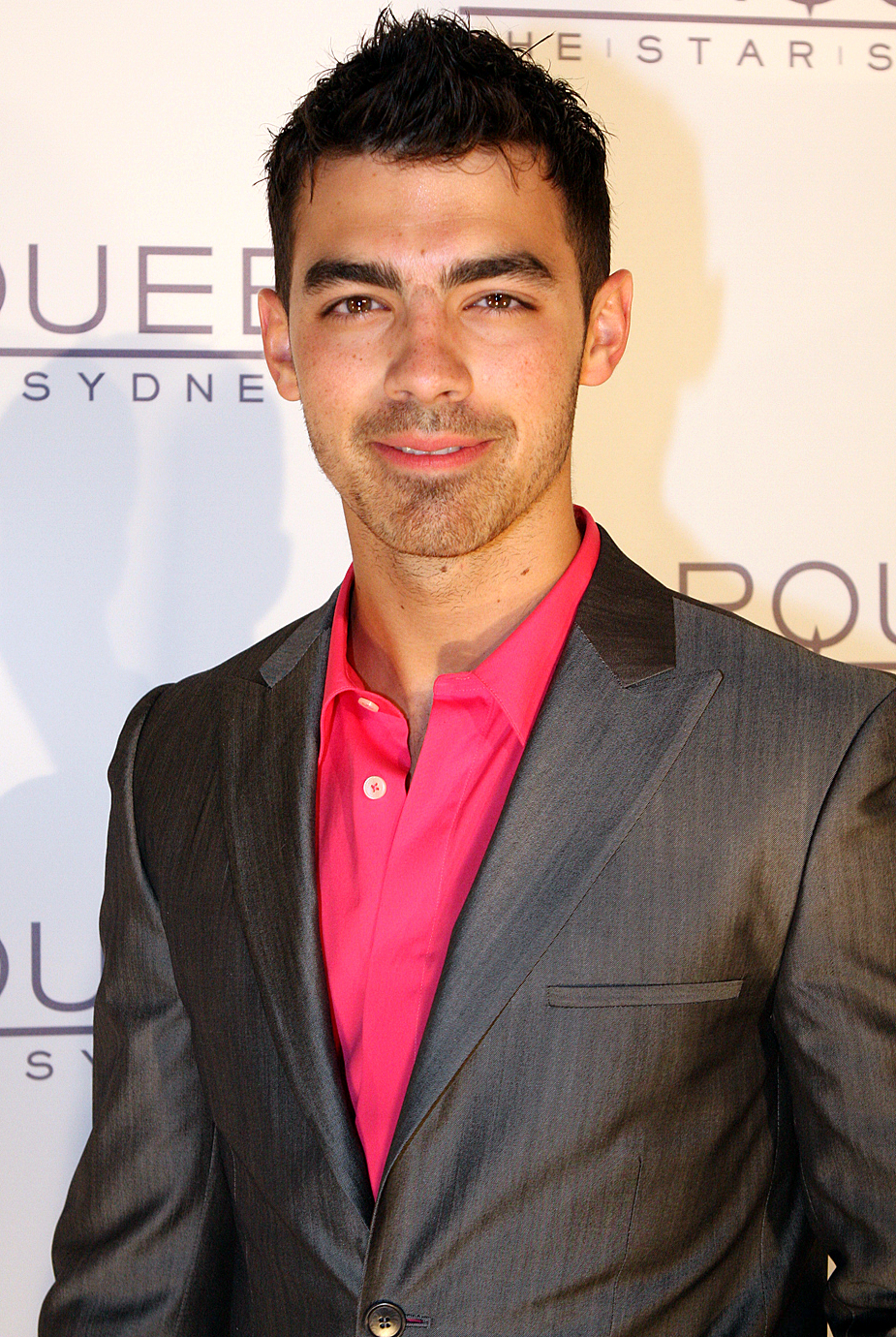 Joe Jonas at the Paris Hilton: Marquee The Star Sydney 2012.